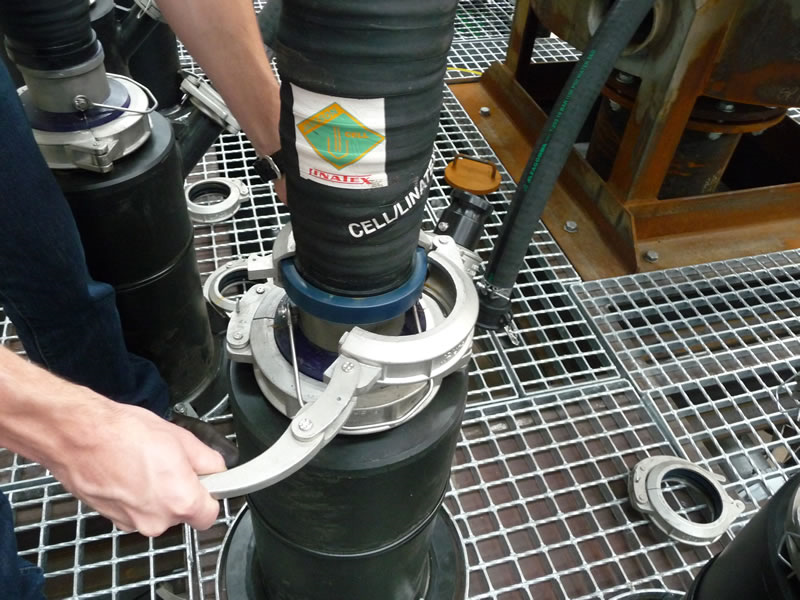 The quick-release clamps now used to attach the concentrate line to a Jameson Cell downcomer.